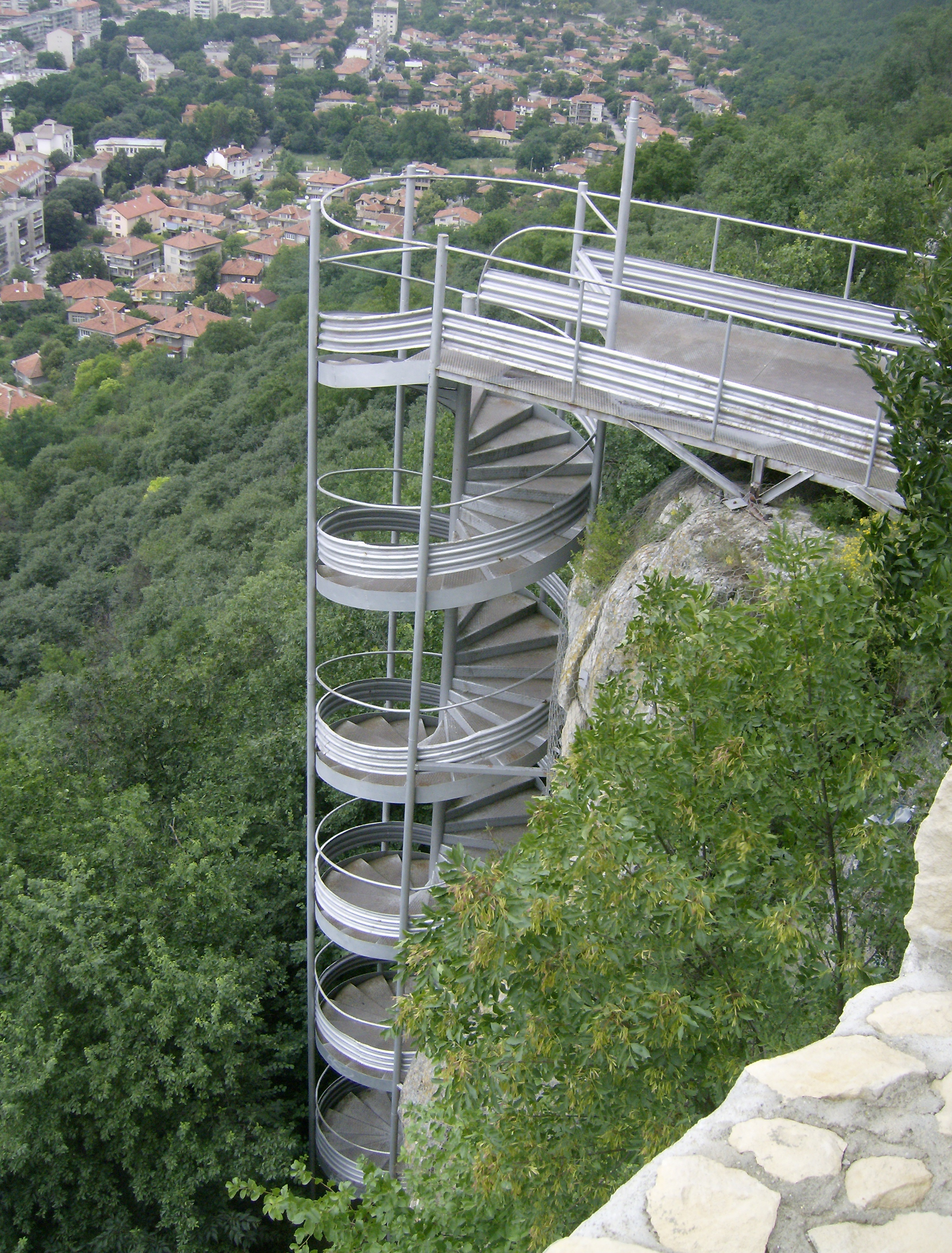 Ovech Fortress